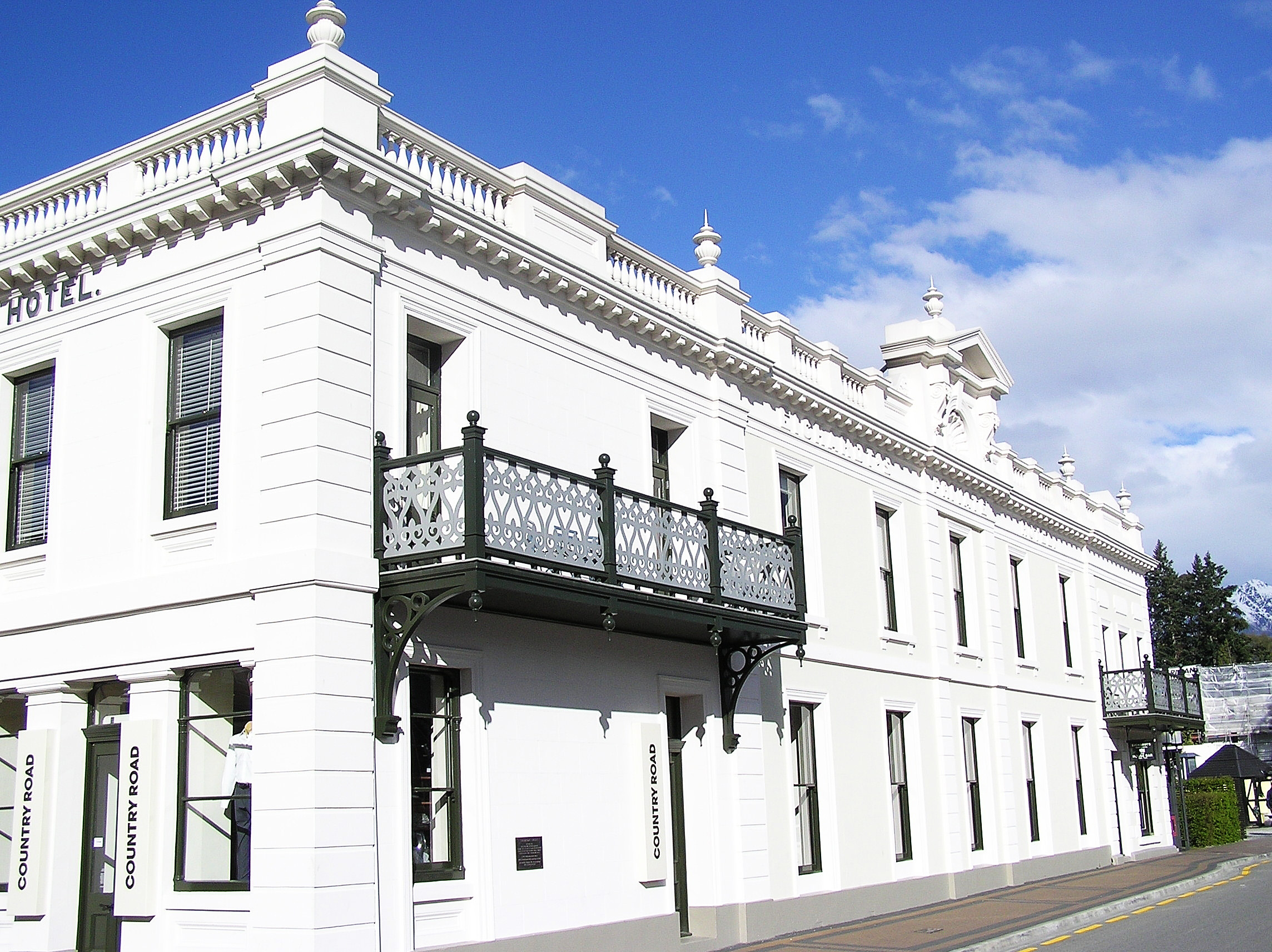 Eichardt's Hotel, Ballarat St & Marine Parade, Queenstown, New Zealand. New Zealand Historic Places Trust Register Number: 7439